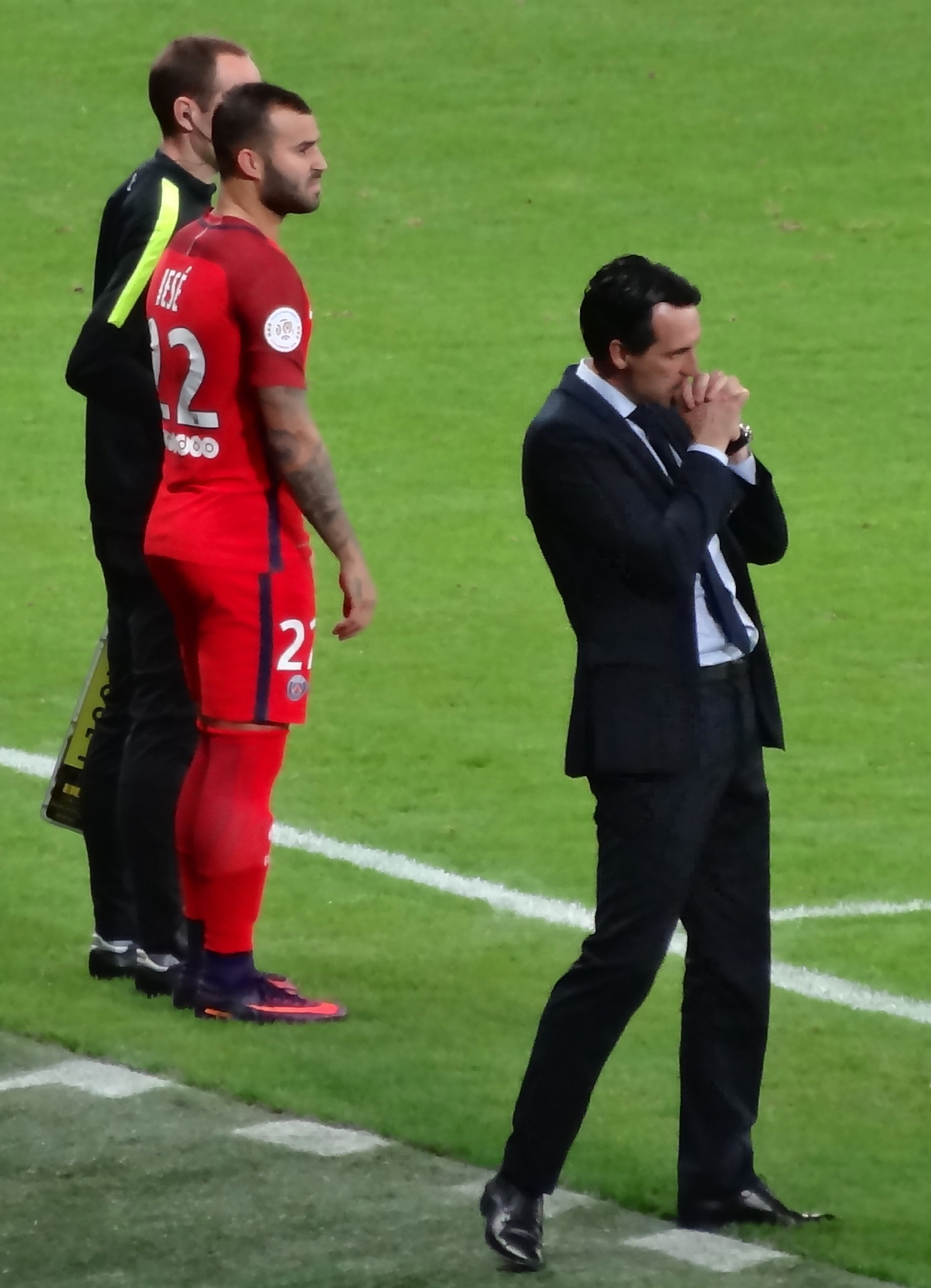 Jesé & Unai Emery